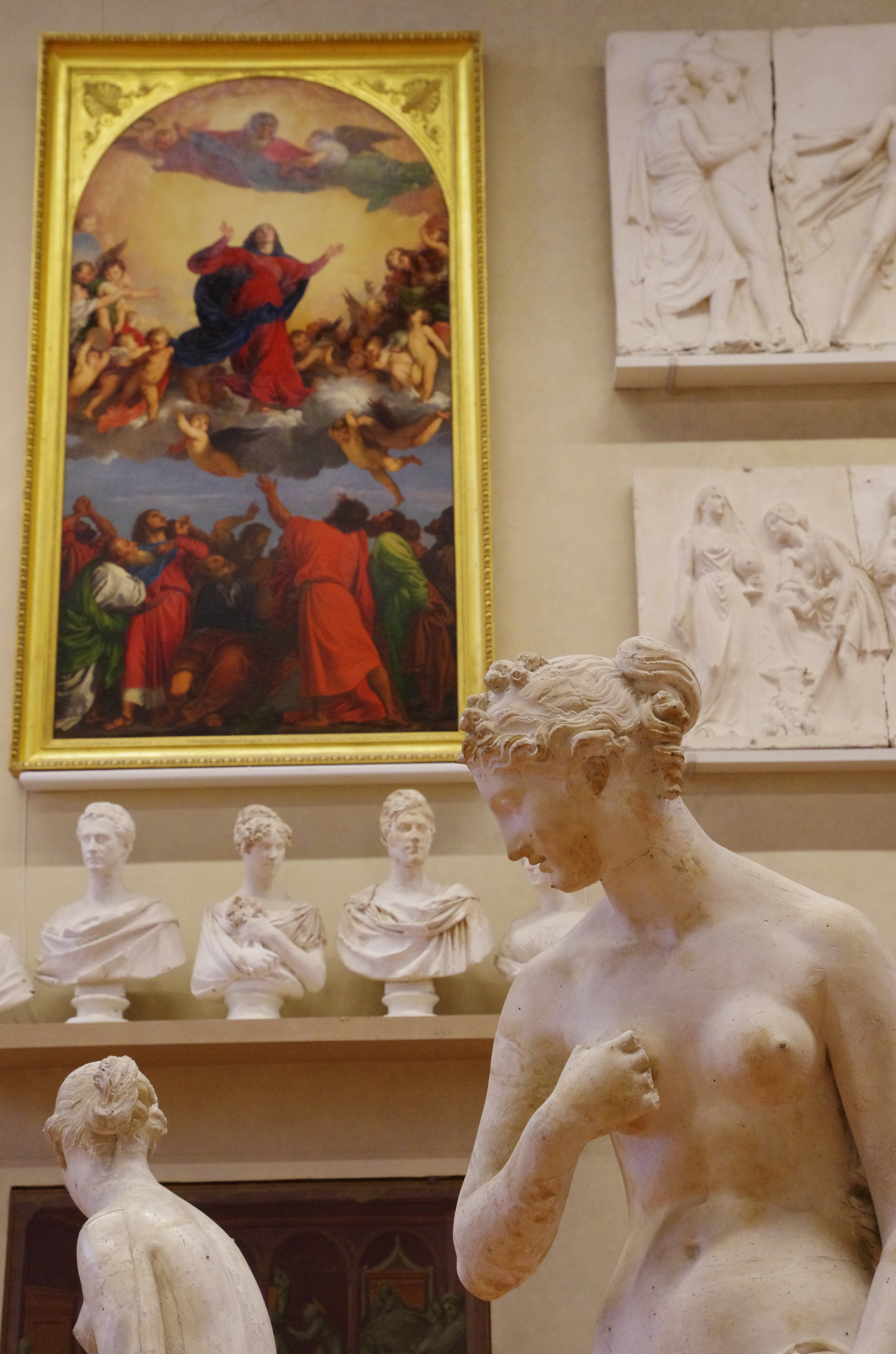 03 2015 Unknown sculptor of the school of Lorenzo Bartolini Nymph-Francesco Sabatelli Copy of the Assumption by Tiziano Vecellio-backs Lorenzo Bartolini Ninfa with snake-reliefs sculpted by Luigi Pampaloni-busts-Galleria dell'Accademia (Florence) Photo Paolo Villa FOTO9226